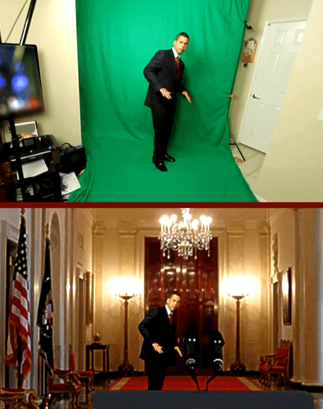 Video screenshots of Obama-impersonator Iman Crosson (YouTube channel Alphacat). Top panel: in front of a "green screen" (Chroma key) in a "behind-the-scenes" video published 2011-05-08. Bottom panel: in the final version of a Barack Obama speech Spoof video that was published 2011-05-04. Two screenshots were composited into a single png file by uploader RCraig09. Mr. Crosson granted CC-by-SA-3.0 permission for the composite in an email dated 2011-05-24 and forwarded in an OTRS email sent the same day.